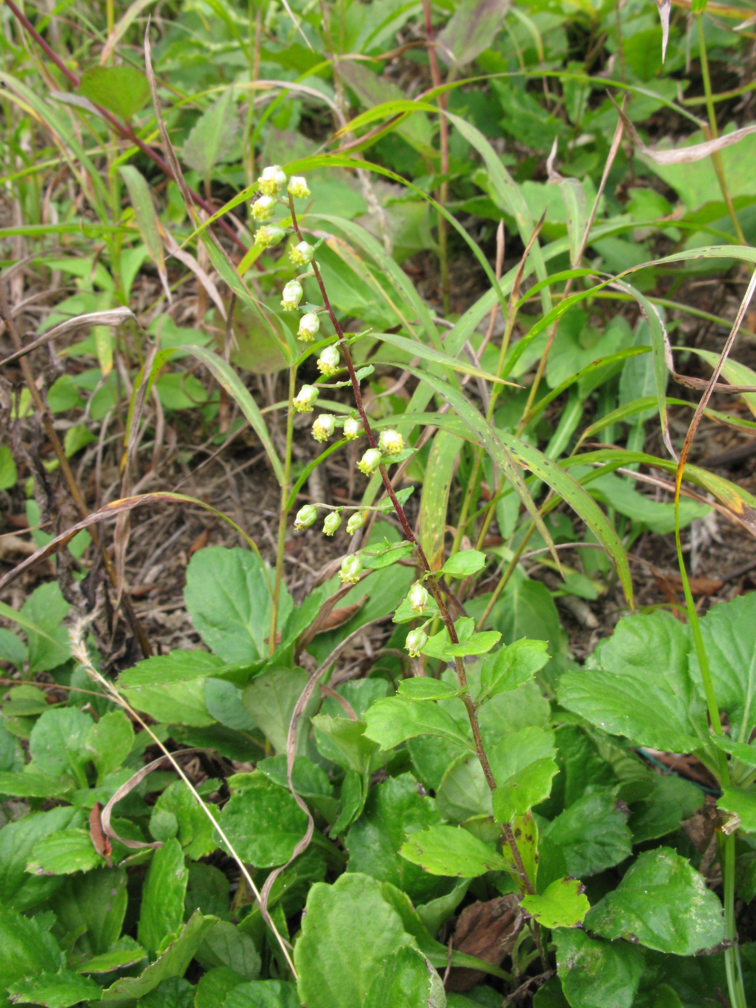 Artemisia keiskeana, Aizu area, Fukushima pref., Japan